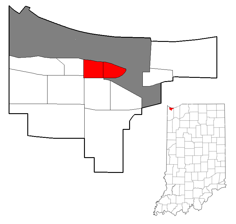 Downtown Neighborhood location in the City of Gary, Indiana